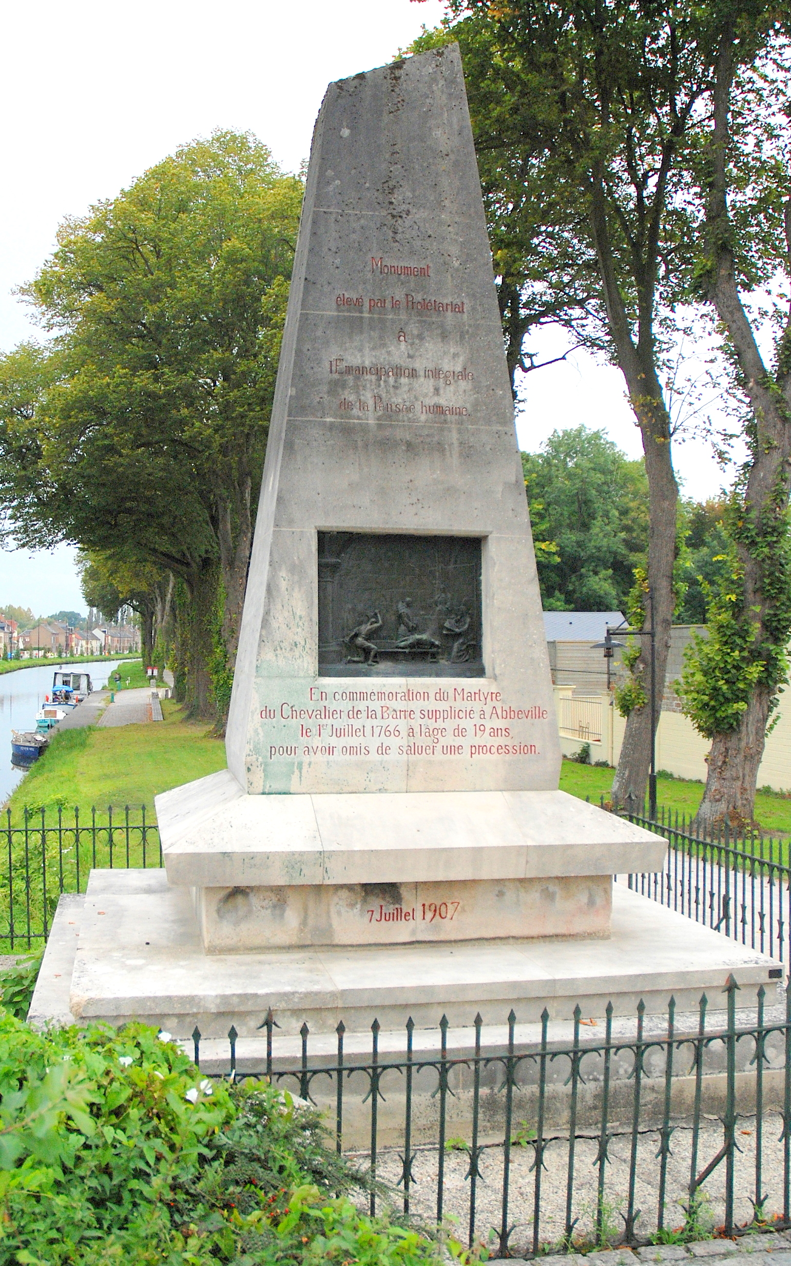 Monument by the side of the Somme canal in Abbeville: "Monument raised by the Proletariat - To the full liberty of human thought - In commemoration of the martyrdom of the Chevalier de la Barre, tortured to death at Abbeville on the 1st of July 1766 at the age of 19 - for having omitted to salute a [religious] procession - 7th July 1907"